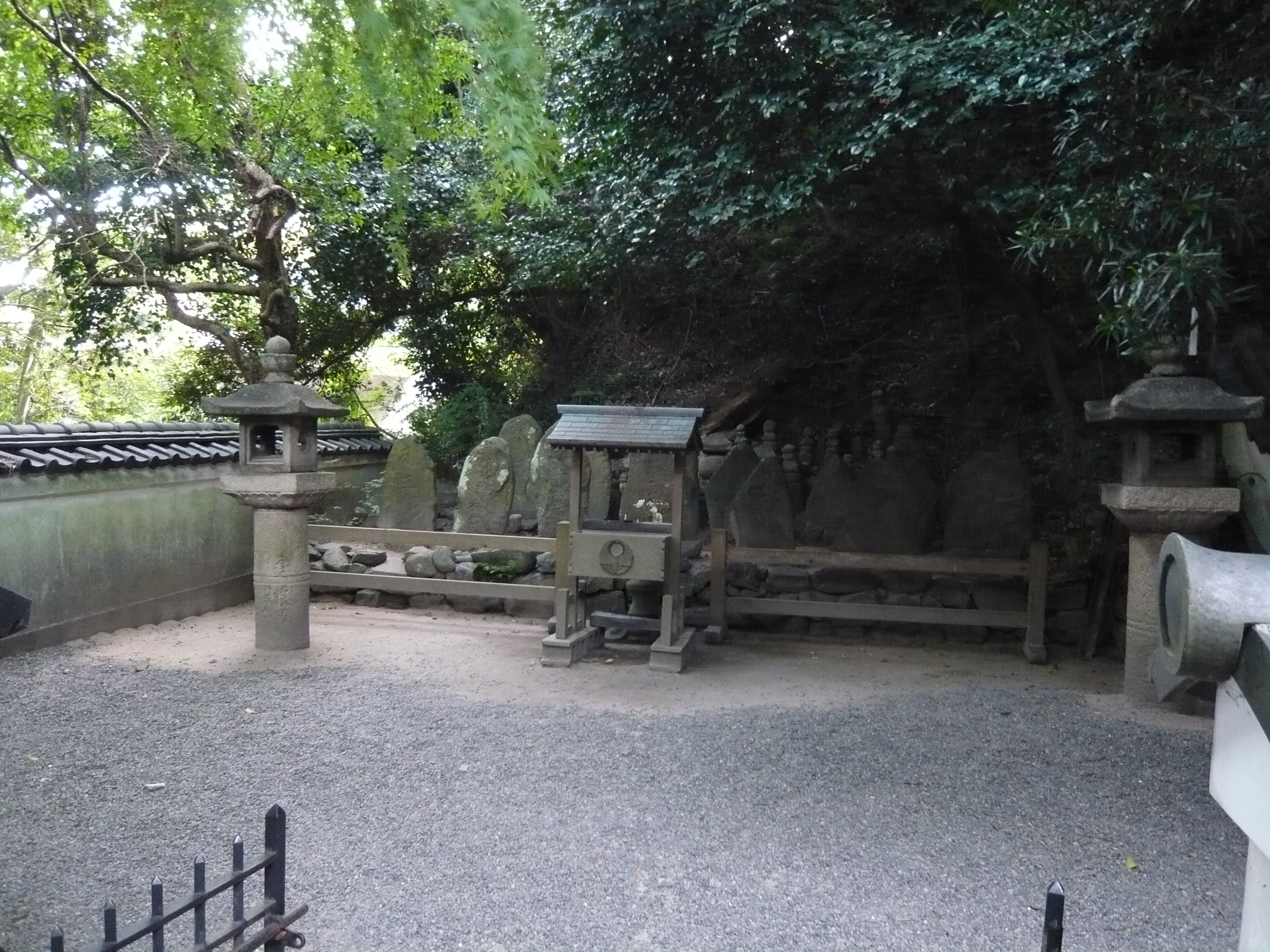 the Nanamori-zuka (Heike's cemetery) in Akama-jingū, Shimonoseki, Yamaguchi, Japan